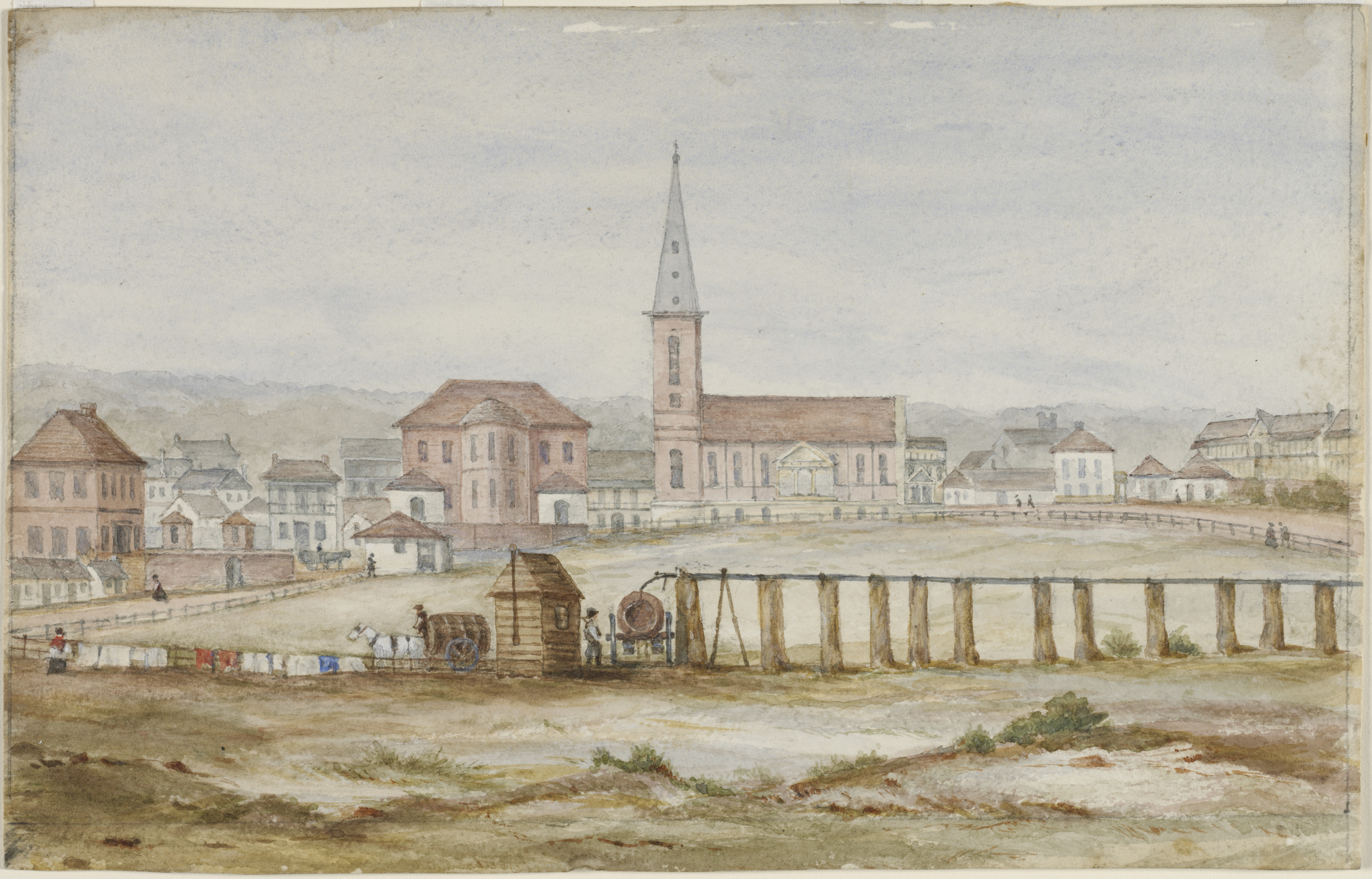 The stand pipe at the end of Busby's bore where it entered Hyde Park